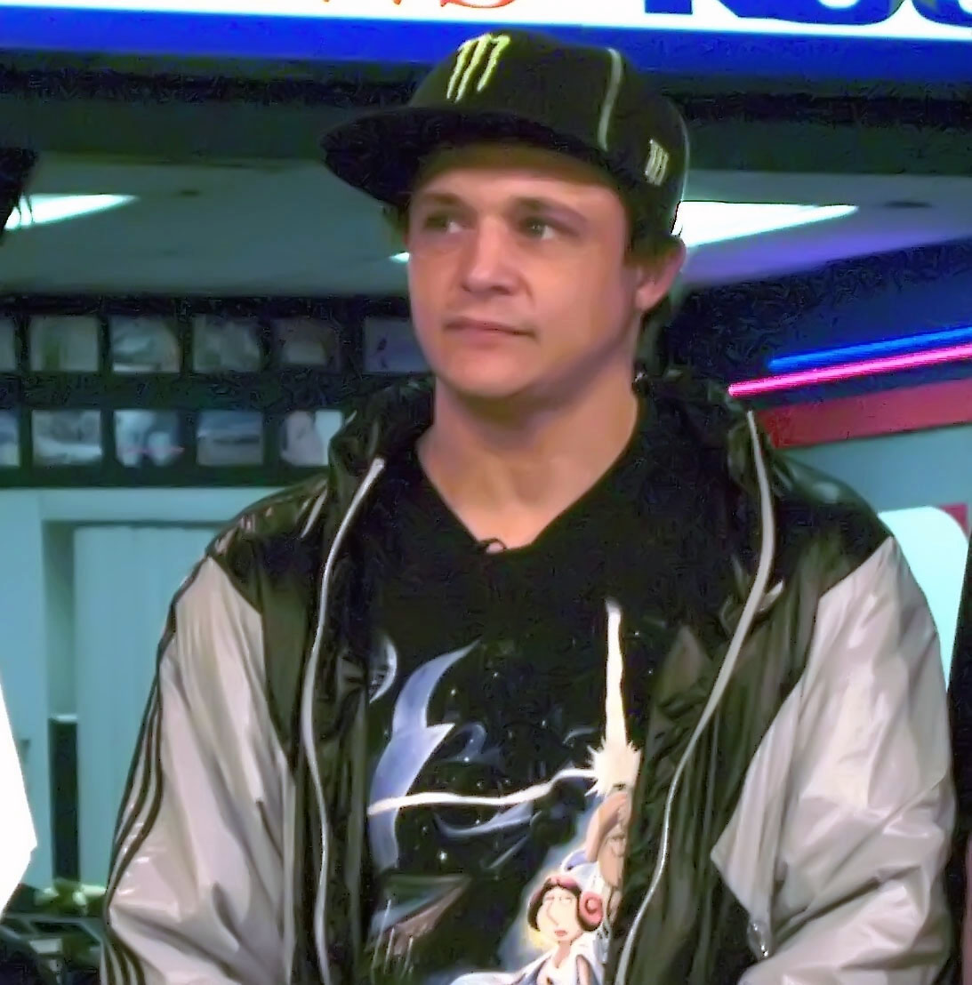 I took this photo of skateboarder Jake Brown in San Diego.